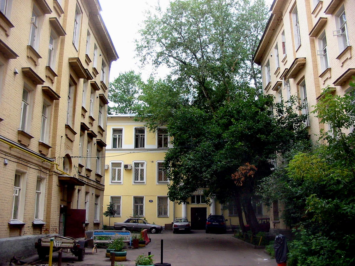 Moscow, Russia, Sadovnicheskays street, 78 - inside courtyard. July 2005. Still standing as of January 2007